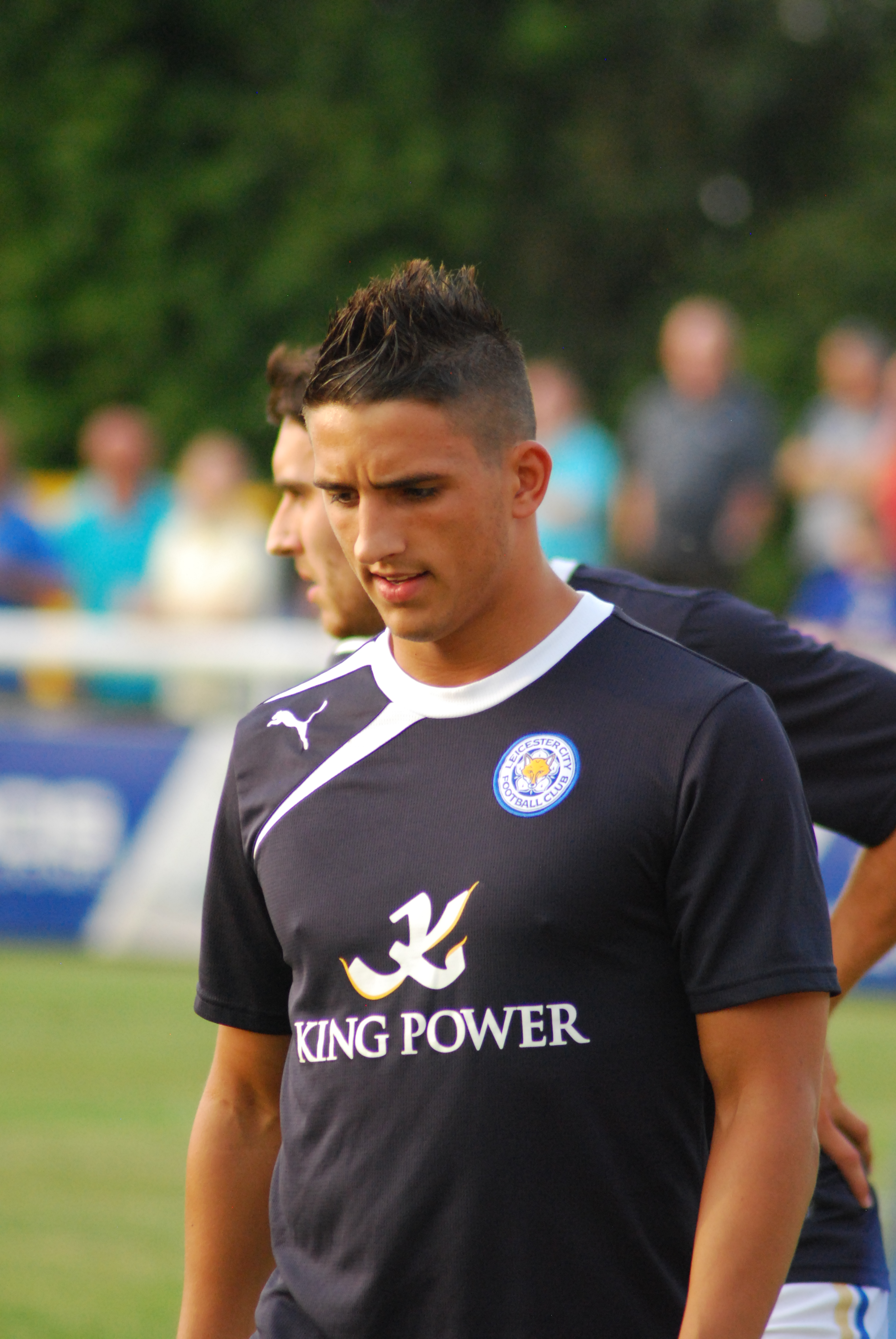 Pre Season friendly vs Leamington Spa